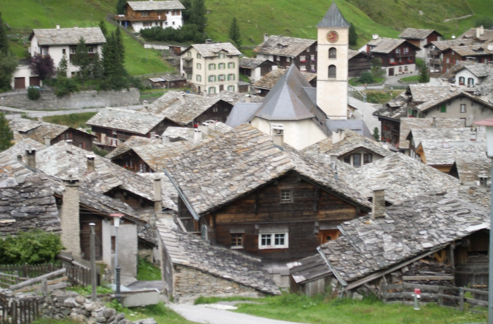 Vals GR, Switzerland